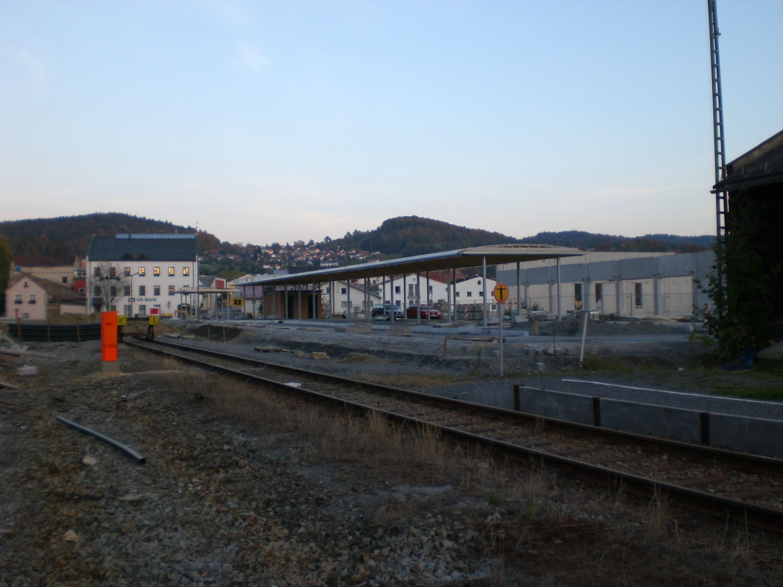 Grafenau bus station, Grafenau, Lower Bavaria, Germany, under construction 7 Oct 2007.